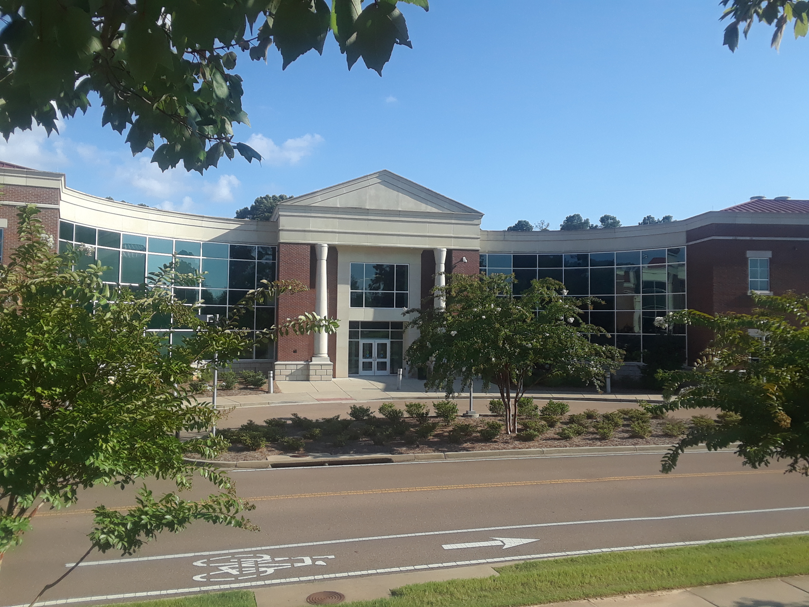 University of Mississippi Innovation Hub at Insight Park front view